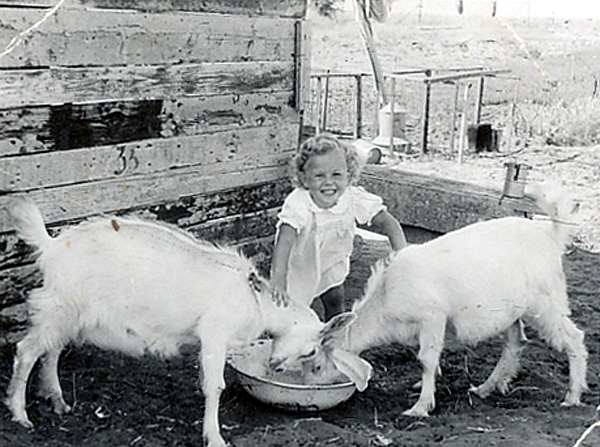 Girl with goat - Moshav Herut, Econimy of Israel